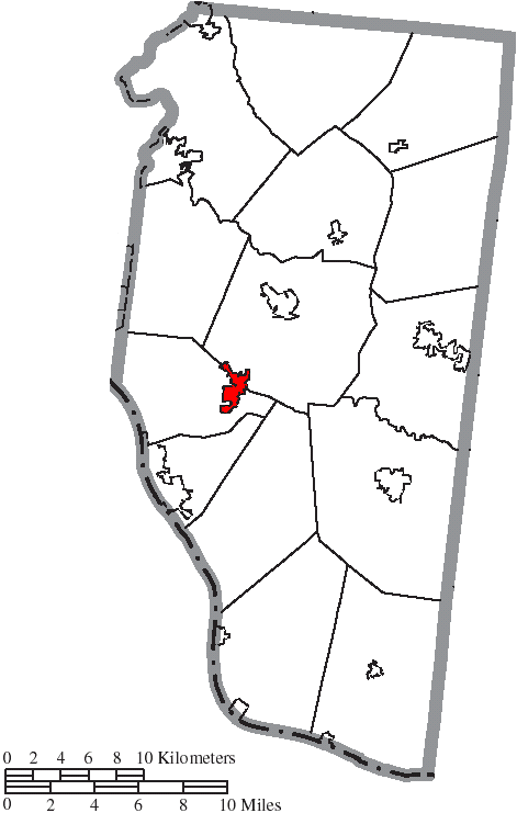 Map of the municipal and township boundaries of Clermont County, Ohio, United States, as of the 2000 census, with the location of the village of Amelia highlighted. Township borders are shown only in unincorporated areas in order to differentiate incorporated and unincorporated areas more clearly.